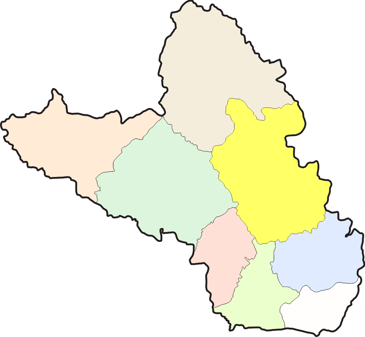 Planned Csík Seat